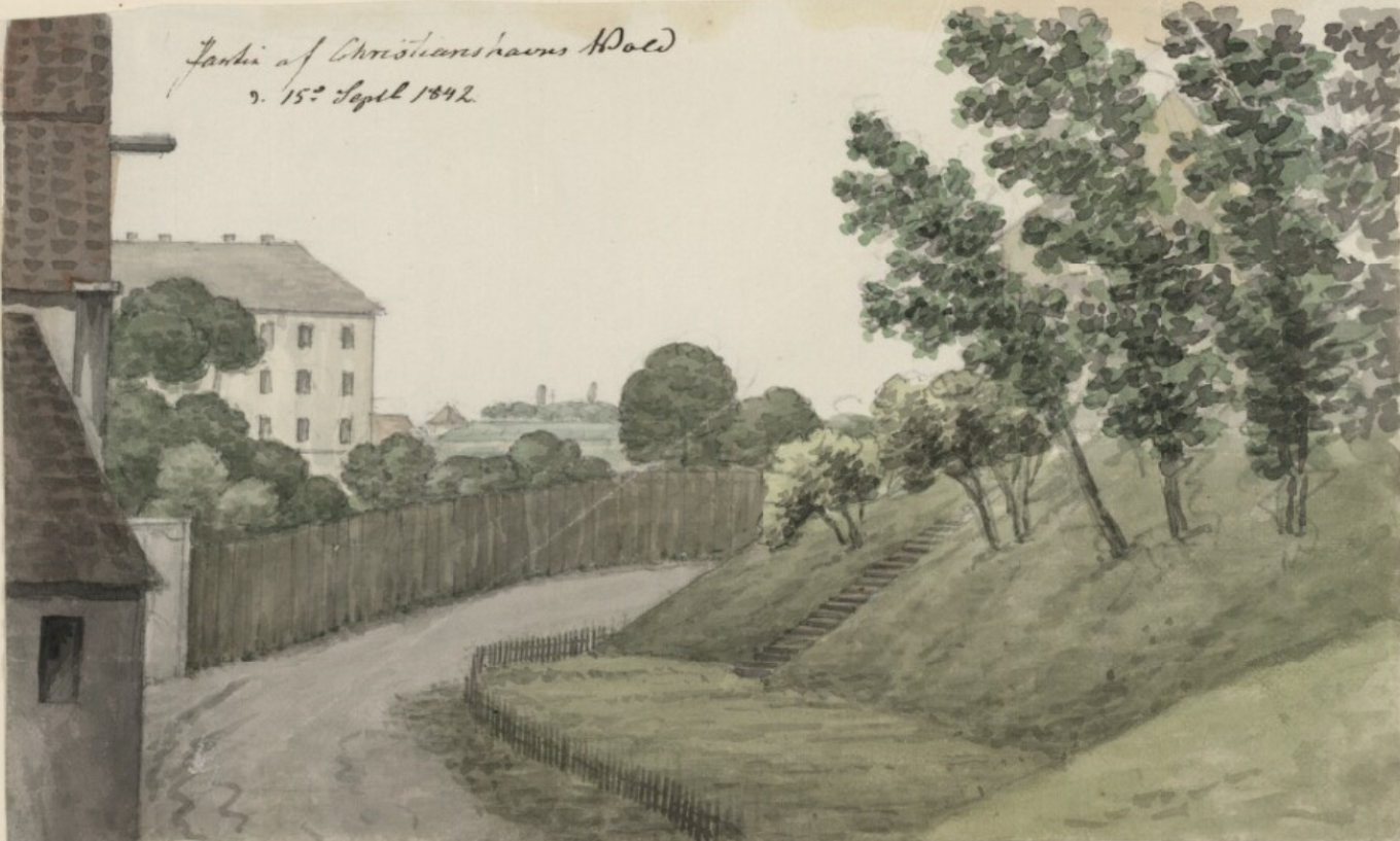 Partie af Christianshavns Vold d. 15. Septb. 1842